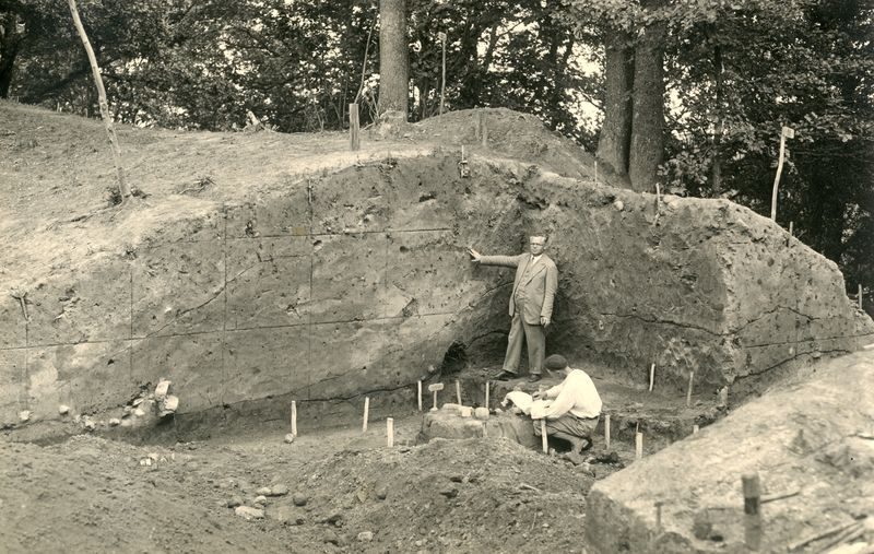 Archaeological excavation in Apuolė in 1931. Man standing is Kazys Trukanas